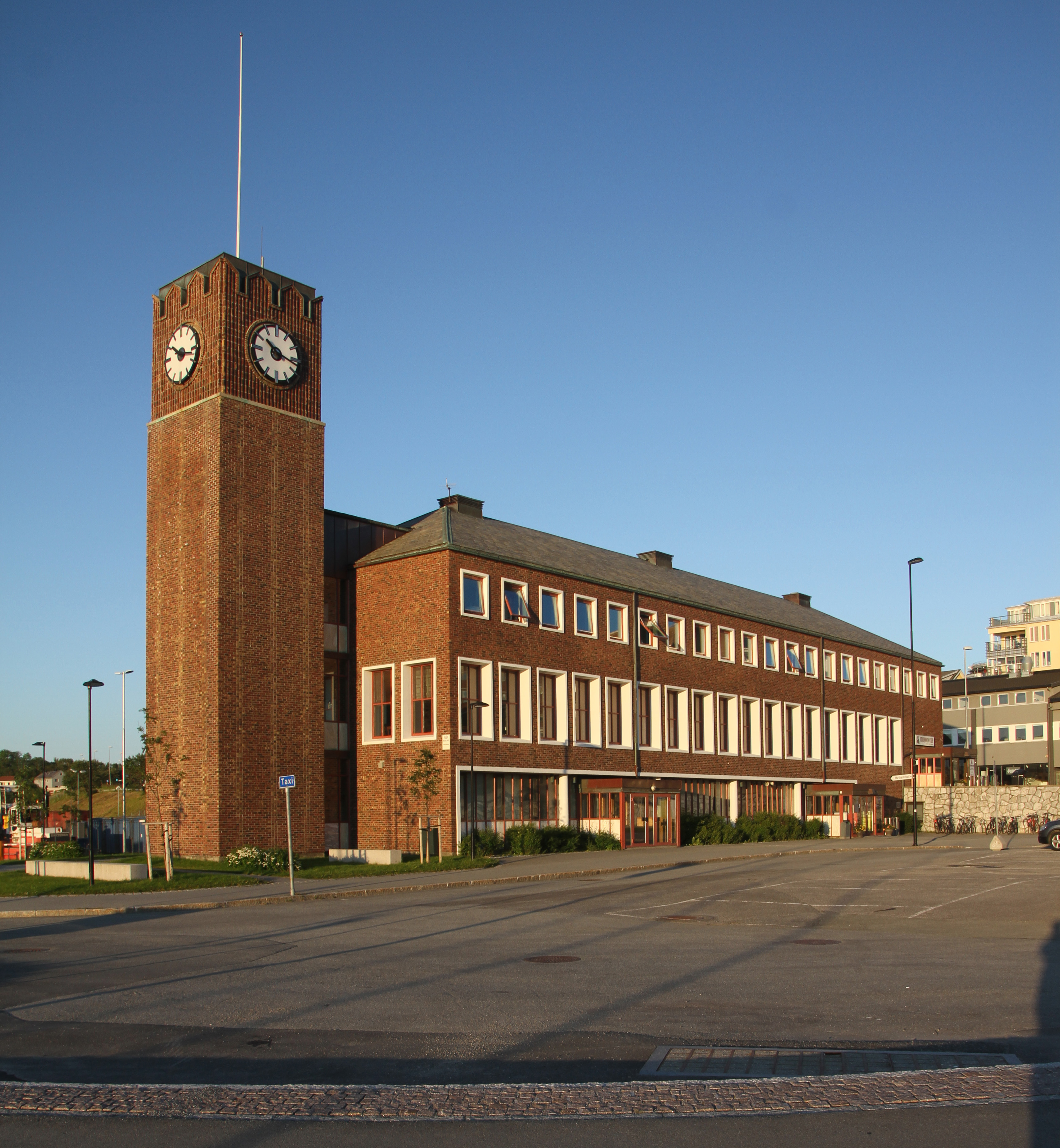 Bodø railway station